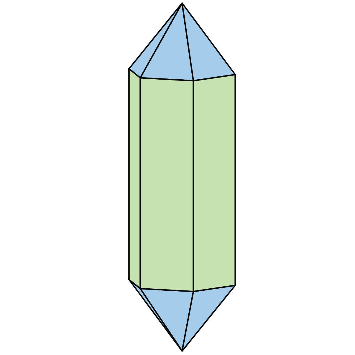 Mallestigite crystal, long prismatic, similar quartz